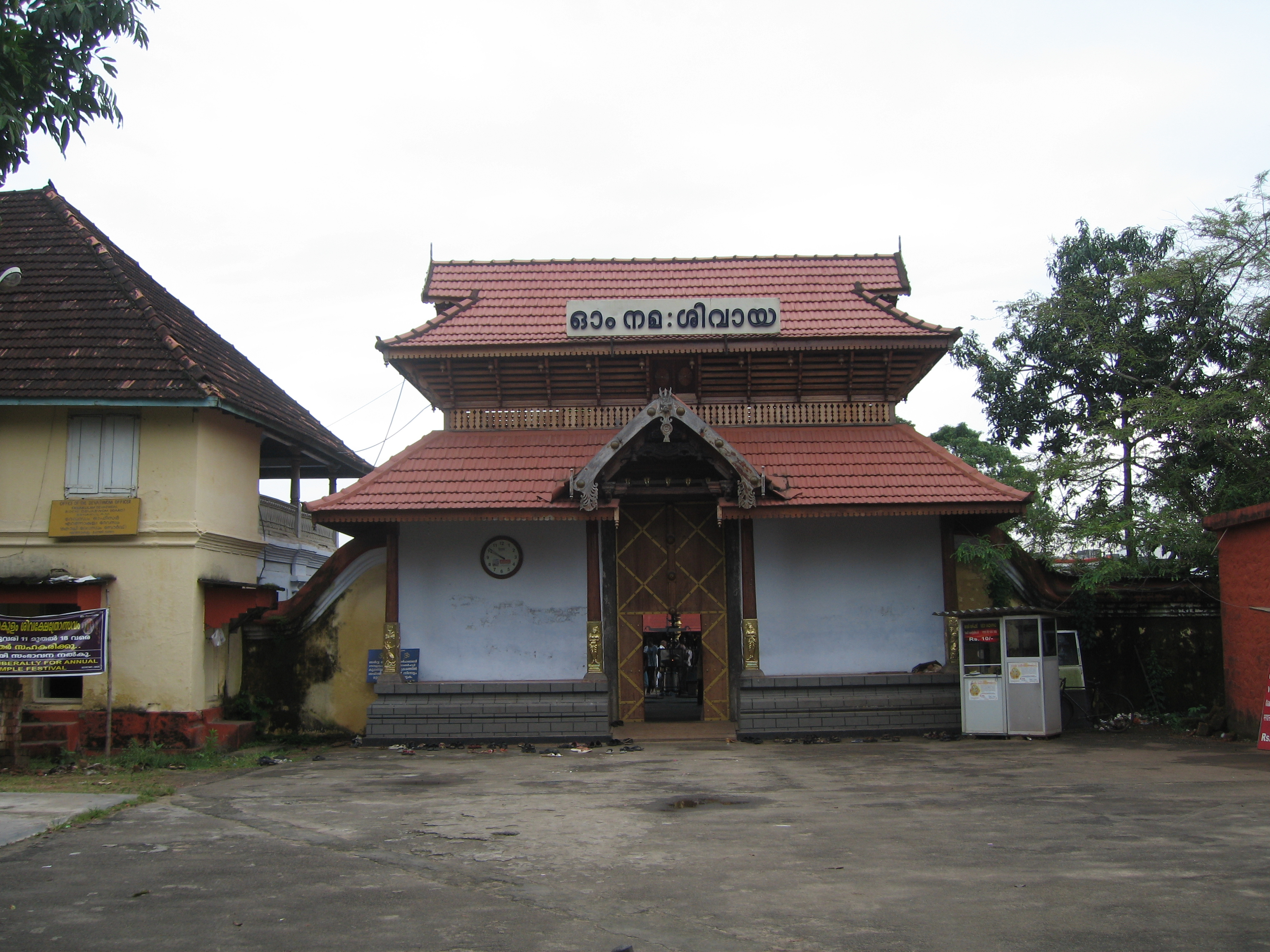 The main gate (gopuram) at the west entrance of Ernakulathappan Temple at Ernakulam, Kochi.